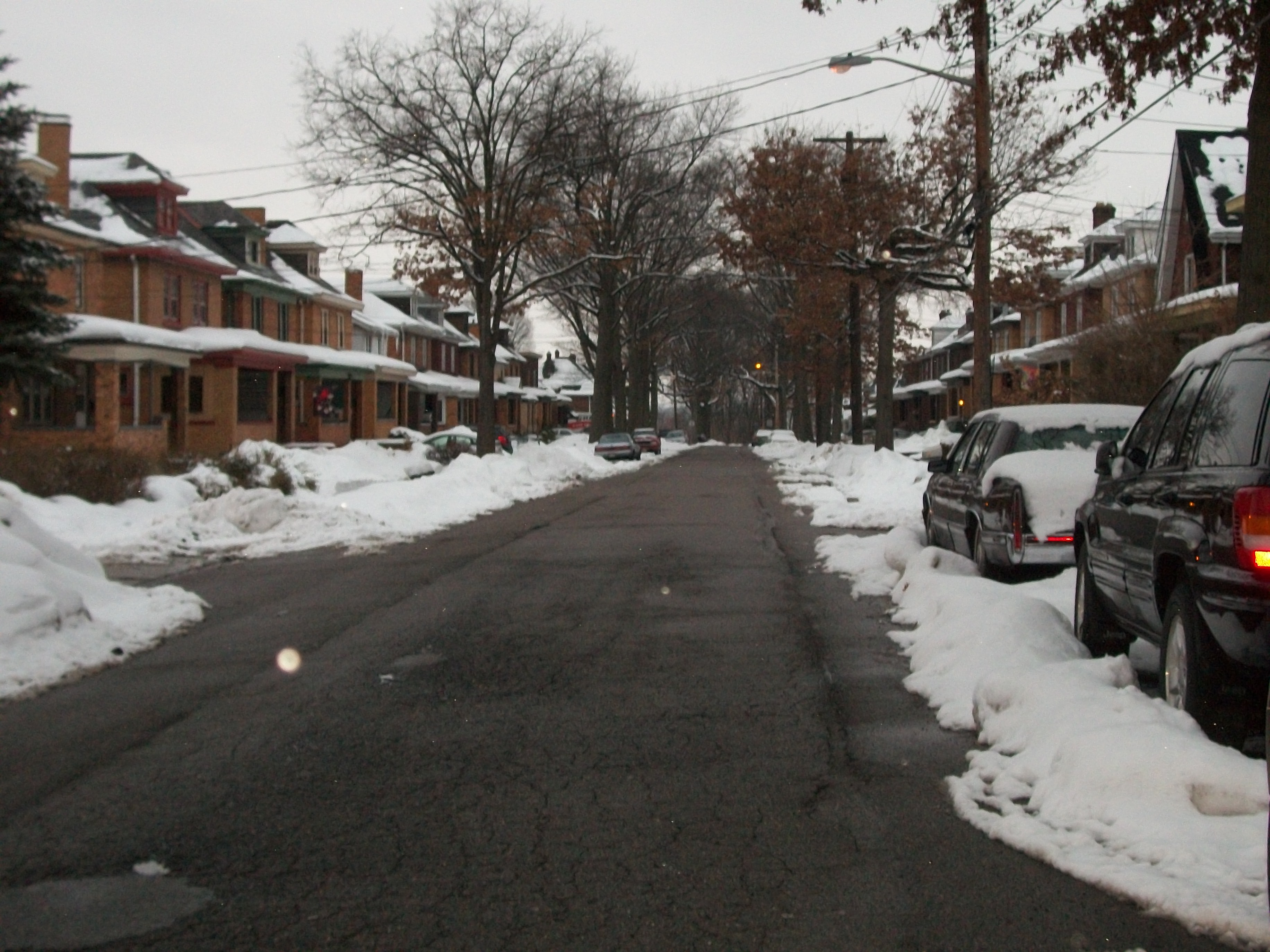 Street in Marshall-Shadeland, Piitsburgh.